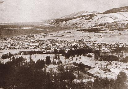 View of Nayoshi(Lesogorsk Лесогорск)